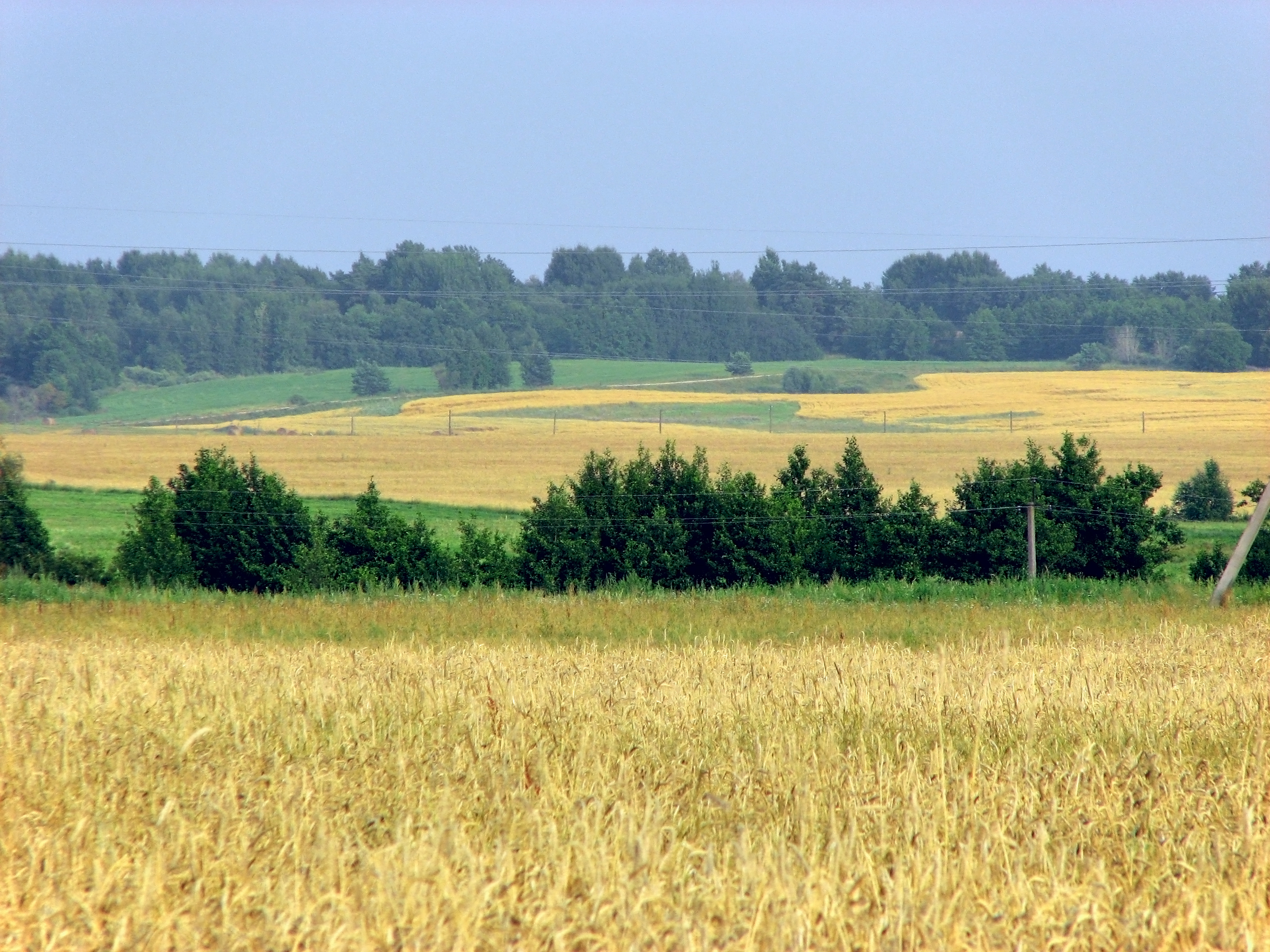 Fields in Belarus.